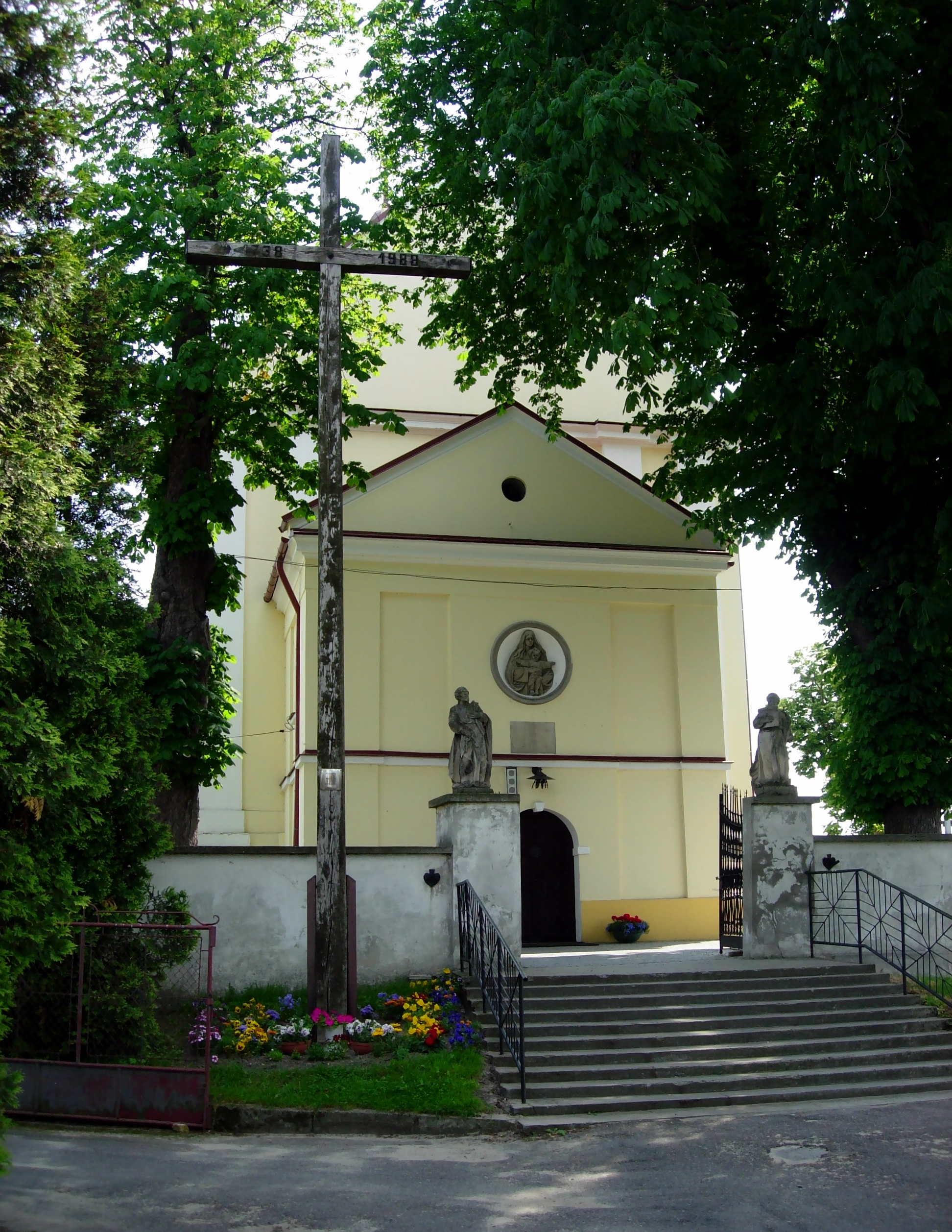 Assumption of the Virgin Mary Church in Zawichost, Poland